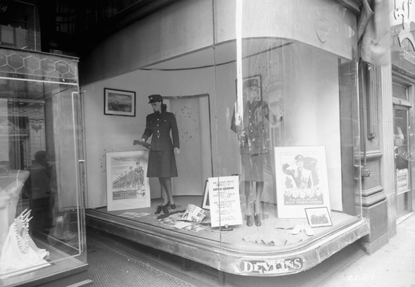 Devlin's window display of the uniforms of the RCAF Women's Division, Sparks Street, Ottawa, Ontario, Canada, 8 April 1943